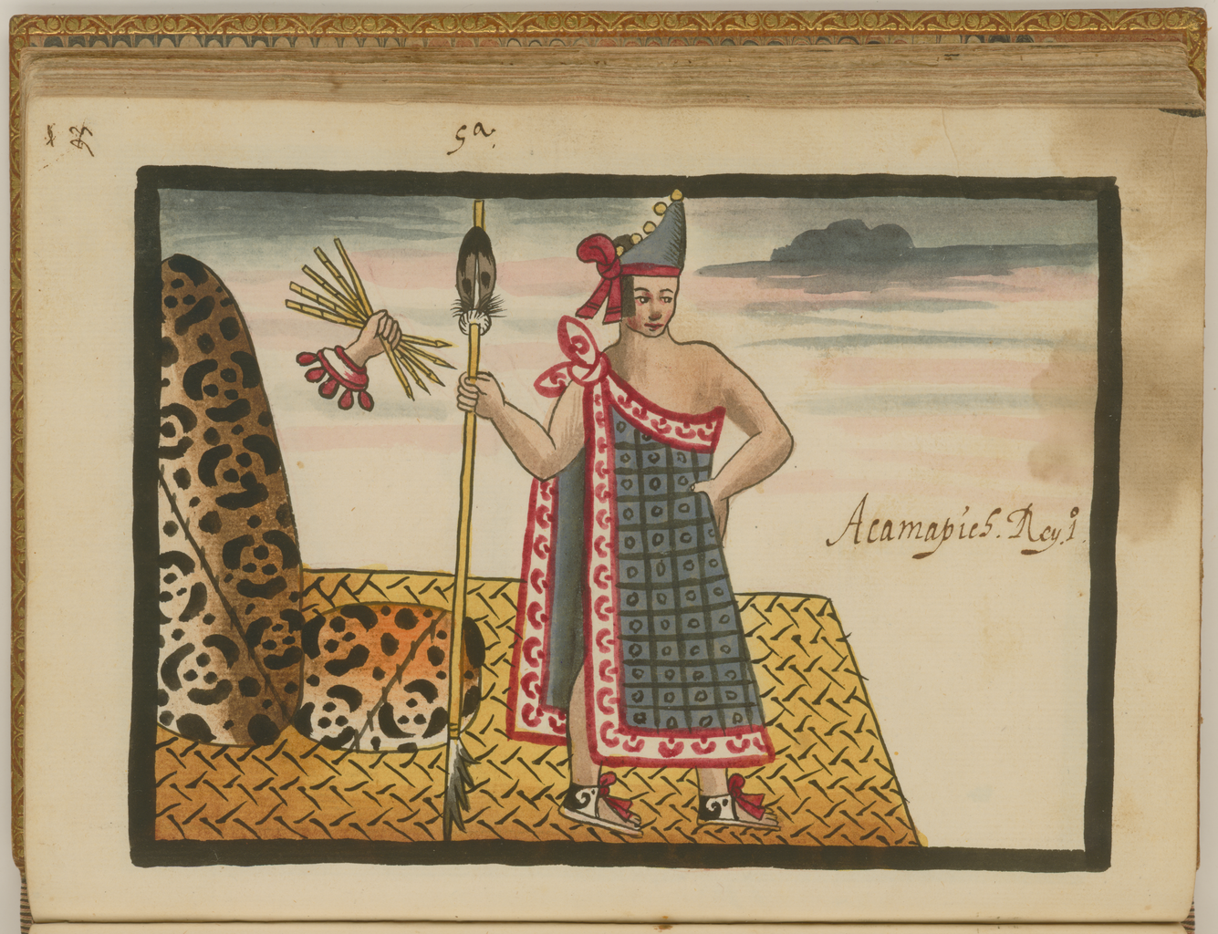 The Tovar Codex, attributed to the 16th-century Mexican Jesuit Juan de Tovar, contains detailed information about the rites and ceremonies of the Aztecs (also known as Mexica). The codex is illustrated with 51 full-page paintings in watercolor. Strongly influenced by pre-contact pictographic manuscripts, the paintings are of exceptional artistic quality. The manuscript is divided into three sections. The first section is a history of the travels of the Aztecs prior to the arrival of the Spanish. The second section, an illustrated history of the Aztecs, forms the main body of the manuscript. The third section contains the Tovar calendar. This illustration, from the second section, depicts Acamapichtli, holding a spear or scepter, standing on a reed mat. Above him is a hand holding reeds. To the right are jaguar skins. Acamapichtli (reigned 1376–95), whose name means handful of reeds, was a descendant of the Toltec emperors; his selection as the first ruler of the Mexico-Tenochtitlan dynasty gave authority to the Aztec rule. He is dressed in the clothes of the highest priests. The designs on his sandals are associated with the god Quetzalcoatl and with his Toltec ancestors. The jaguar, the eagle, and the serpent were potent symbols of Aztec religion. Acamapichtli, flourished 1376-1395; Aztecs; Codex; Indians of Mexico; Indigenous peoples; Kings and rulers; Mesoamerica; Tovar Codex